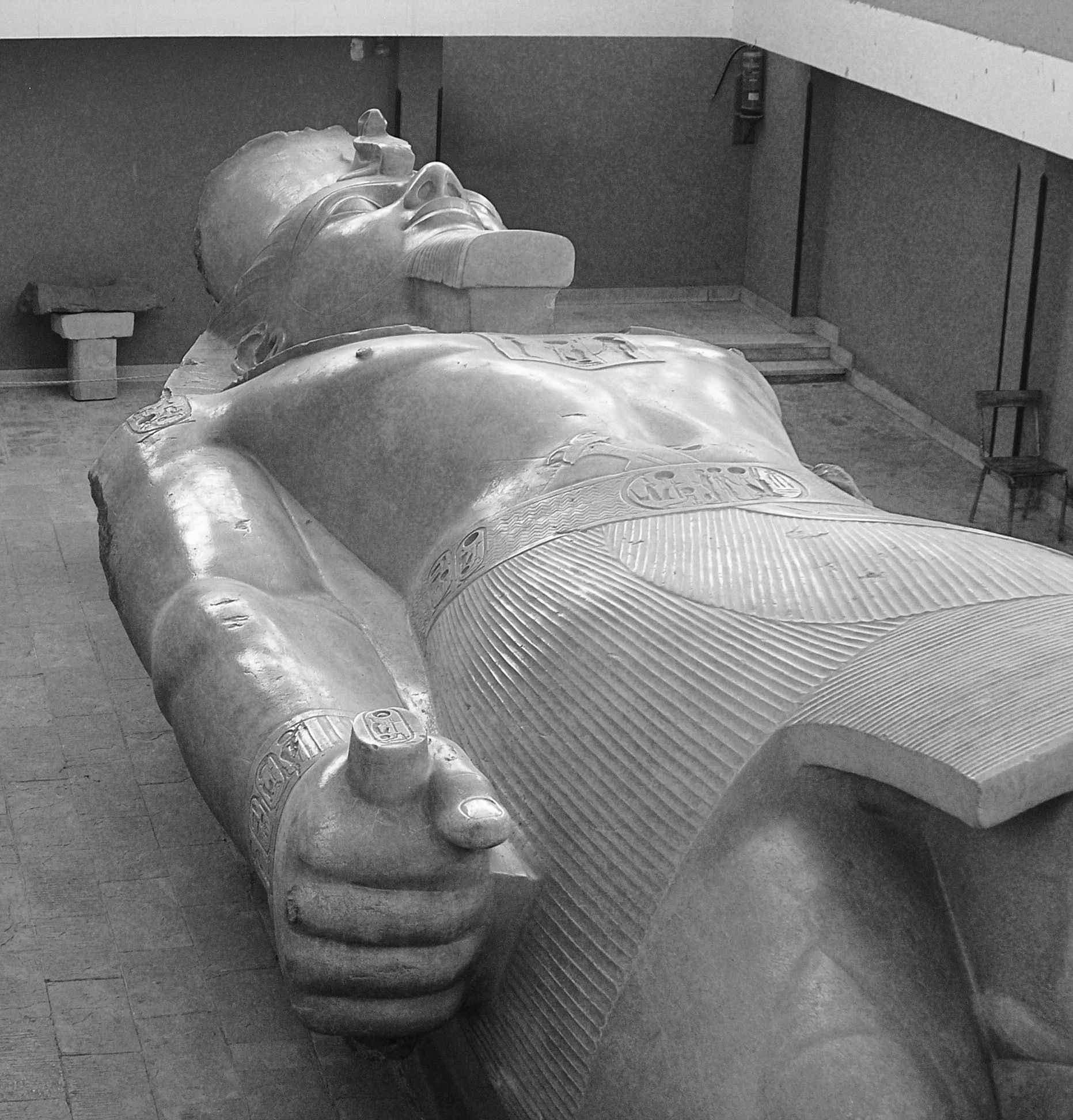 Ramsses II. Colossus Located in Memphis Museum, Egypt